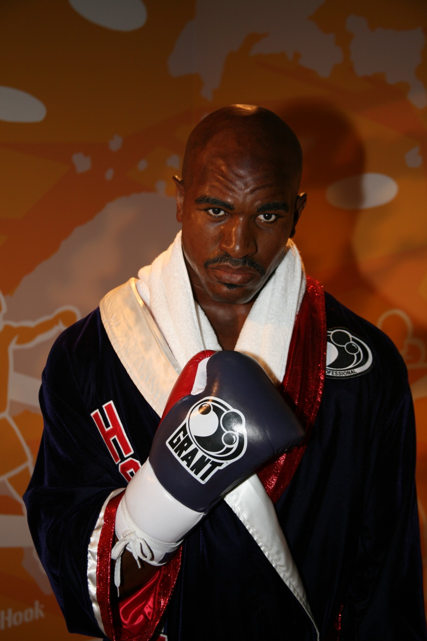 Evander Holyfield's statue at Madame Tussaud's in Washington